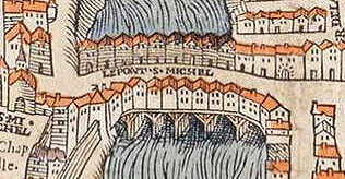 Saint-Michel bridge on the Plan de Truschet and Hoyau (1550).